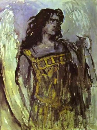 Fedor Shalyapin as Demon in Rubinstein's opera